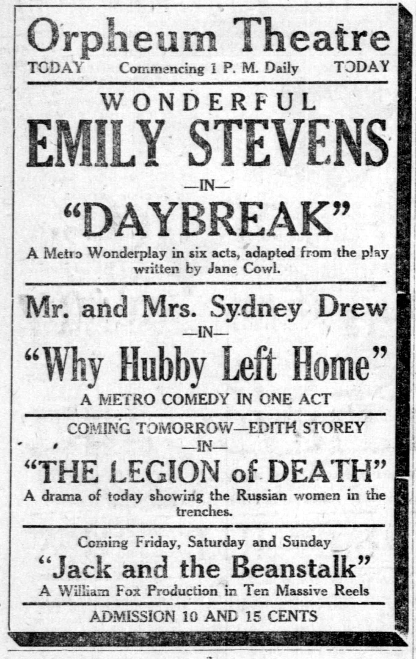 Daybreak is a 1918 American silent drama film directed by Albert Capellani. This is a newspaper advert for this film and others.